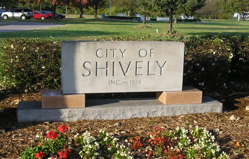 Shively